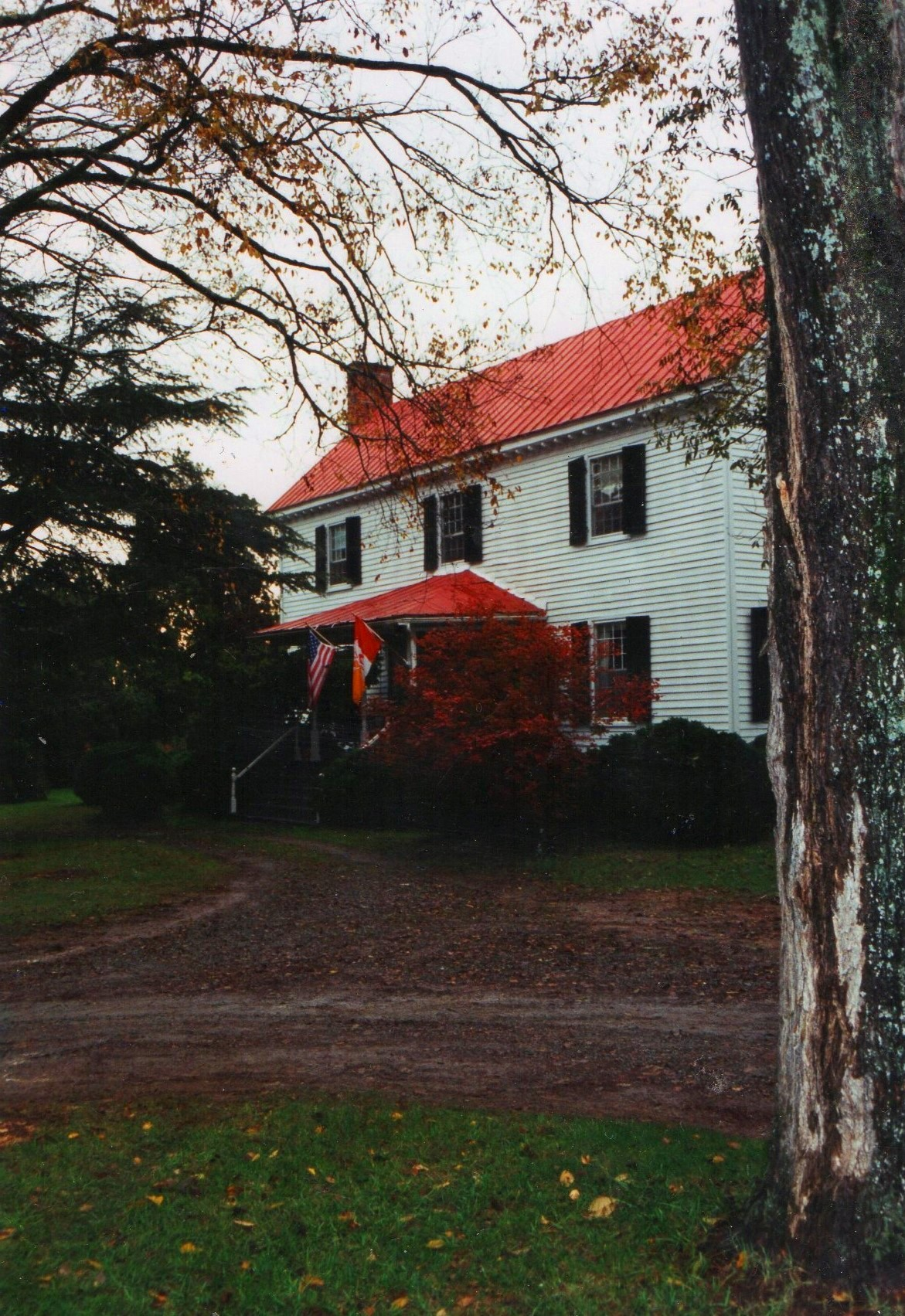 Black Walnut (Clover, Virginia)